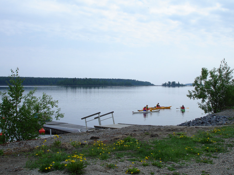 The archipelago of Skeppsvik in the northern part of Umeå municipality, Sweden. The archipelago is a nature reserve.